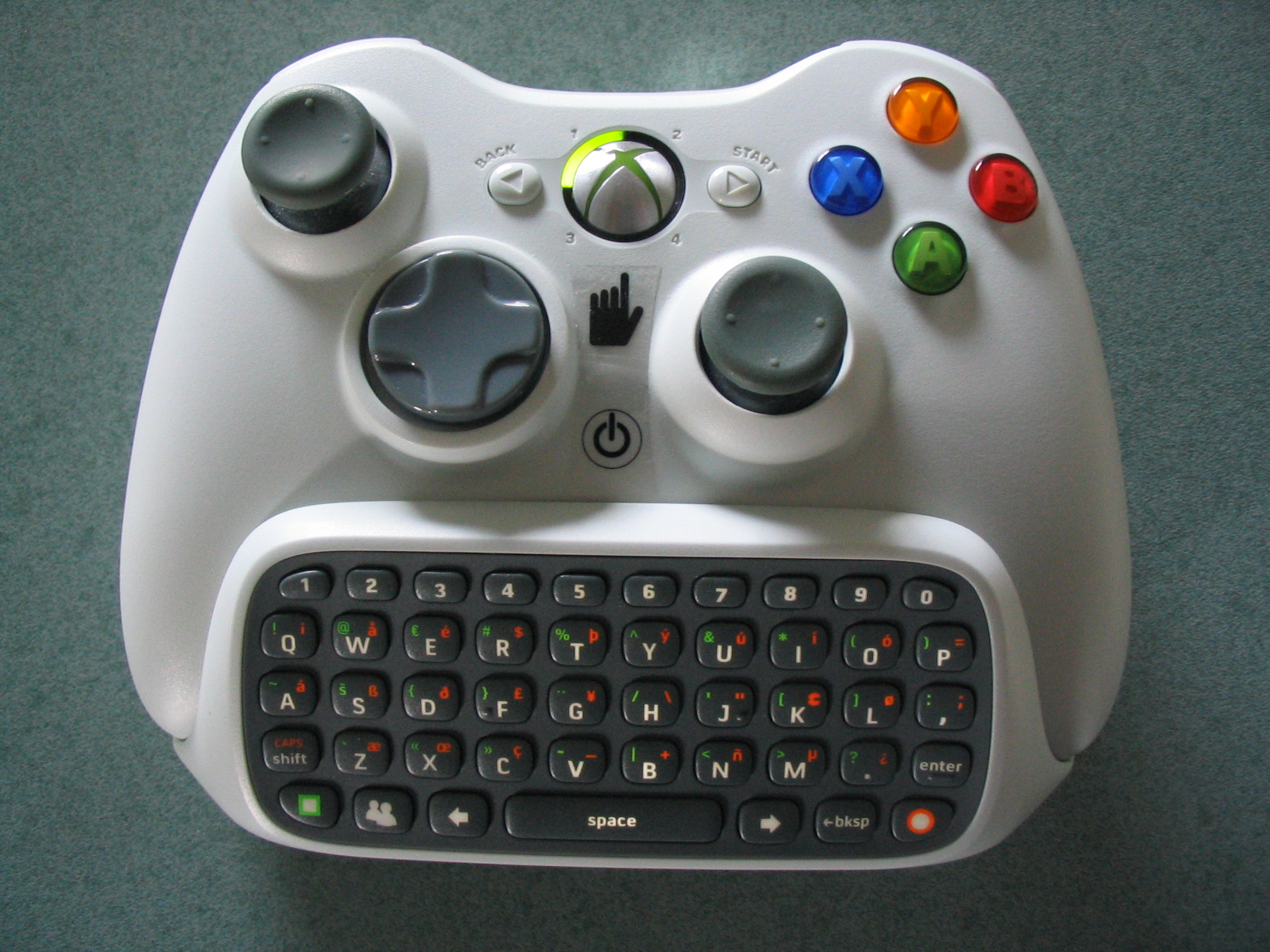 Microsoft Xbox 360 Wireless Controller with Messenger Keyboard